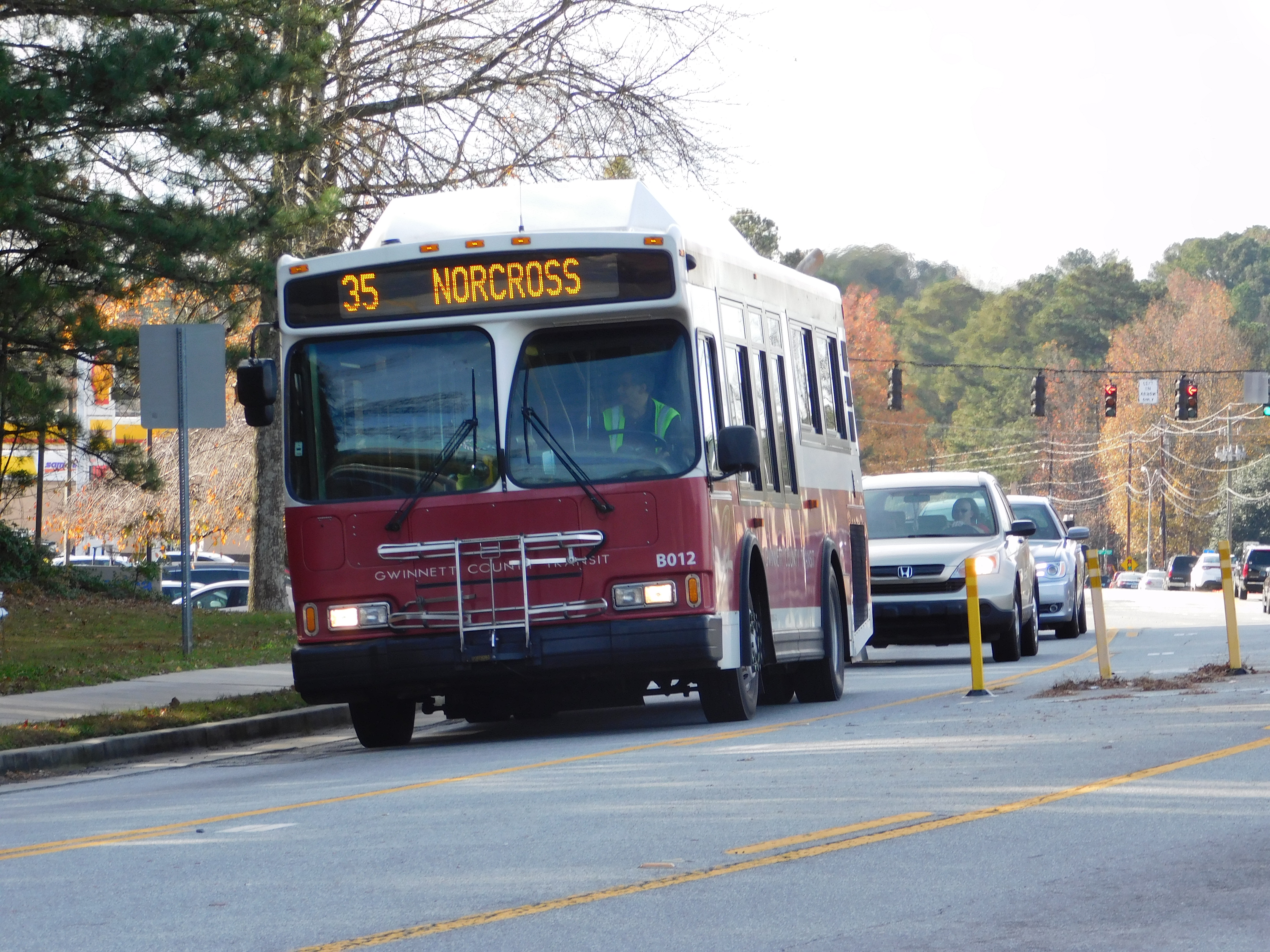 Gwinnett County Transit 2002 Orion VII CNG on the 35 Bus on Spalding Drive heading to Doraville MARTA Station.